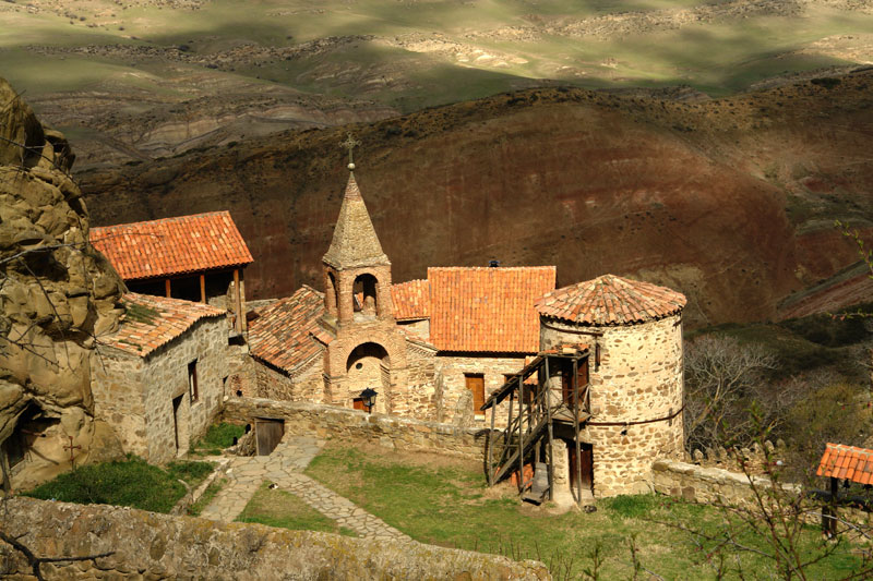 David Gareja monastery complex in the Kakheti region of Eastern Georgia.